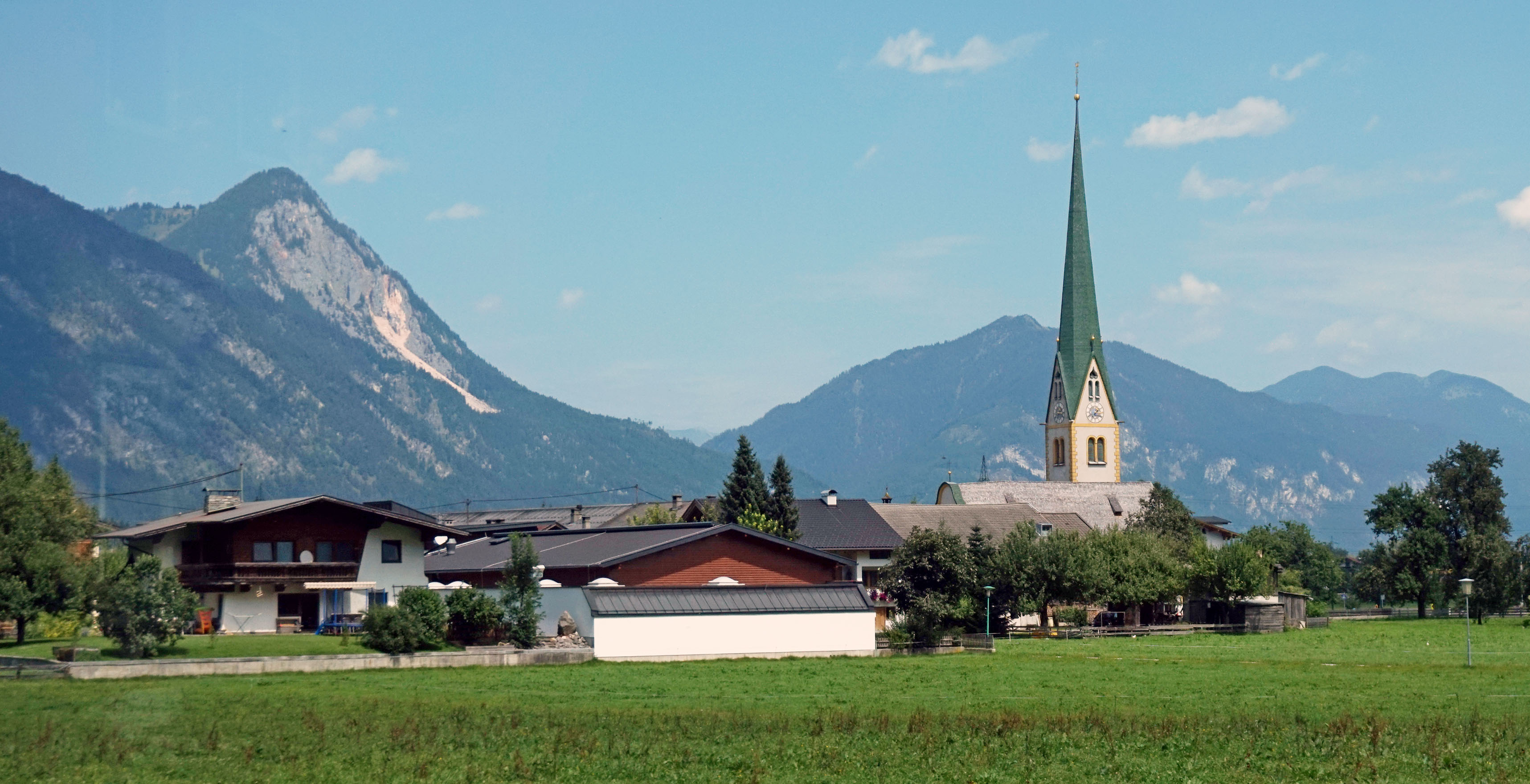 Strass im Zillertal in Austria. This photograph was taken with a Sony Alpha a5000.